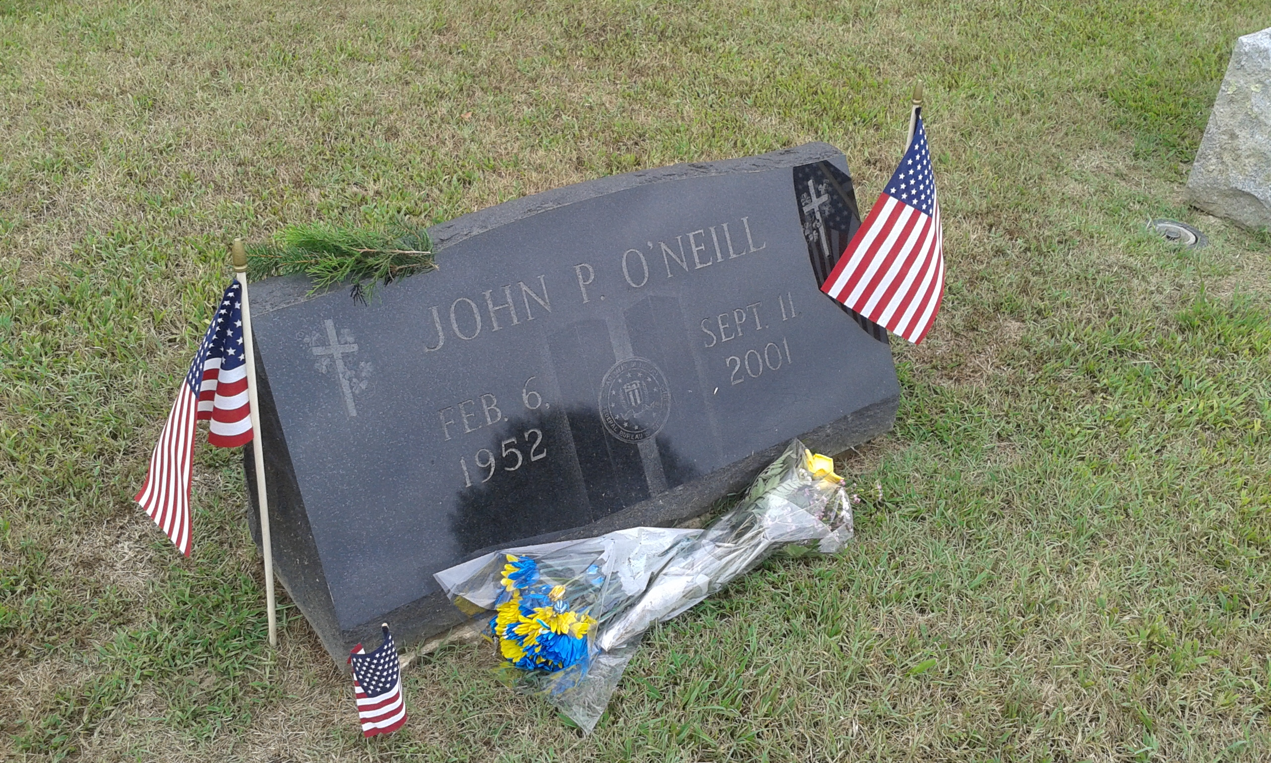 Grave Stone of John P. O'Neill at Holy Cross Cemetery, Mays Landing, NJ